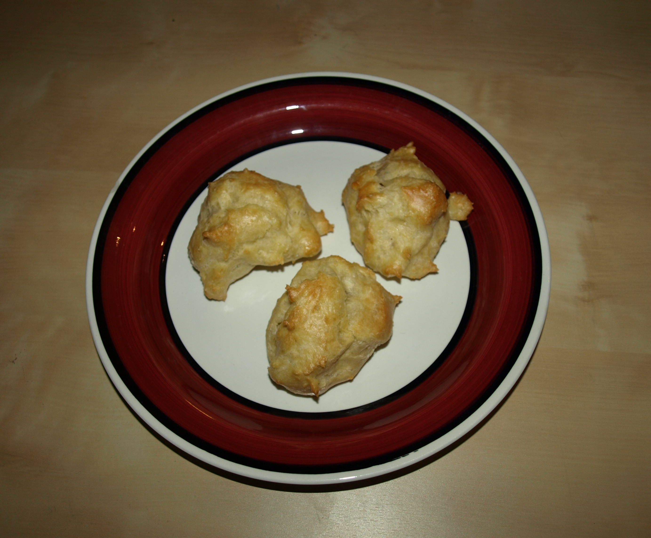 The pastry known as "Petit-chou".